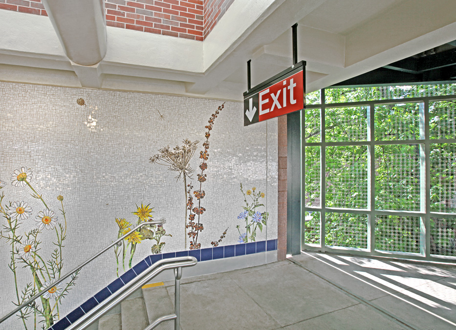 Brooklyn Seeds, mosaic artwork by Jason Middlebrook that adorns the Avenue U Station on the Q Line, was named one of the best public artworks in the United States at the 2012 Americans for the Arts Convention, held in San Antonio. The artwork is a giant mosaic of flowers climbing up the wall of the station. The piece was created using vibrant glass mosaic and ceramic tile by Miotto Mosaic Art Studio. The plants are based on wildflowers that grow in unlikely places in urban neighborhoods, through cracks in the sidewalks, and in alleys and along walls. Photo: Metropolitan Transportation Authority / Rob Wilson.